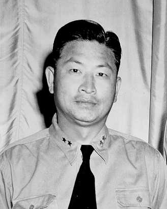 Sohn Won Yil, head of the Korean Navy cropped from a photo with a caption: Sohn Won Yil, head of the Korean Navy, and Commander William Achurch, USCGR